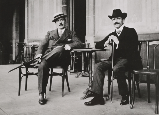 Arturo Toscanini and Giacomo Puccini in 1910